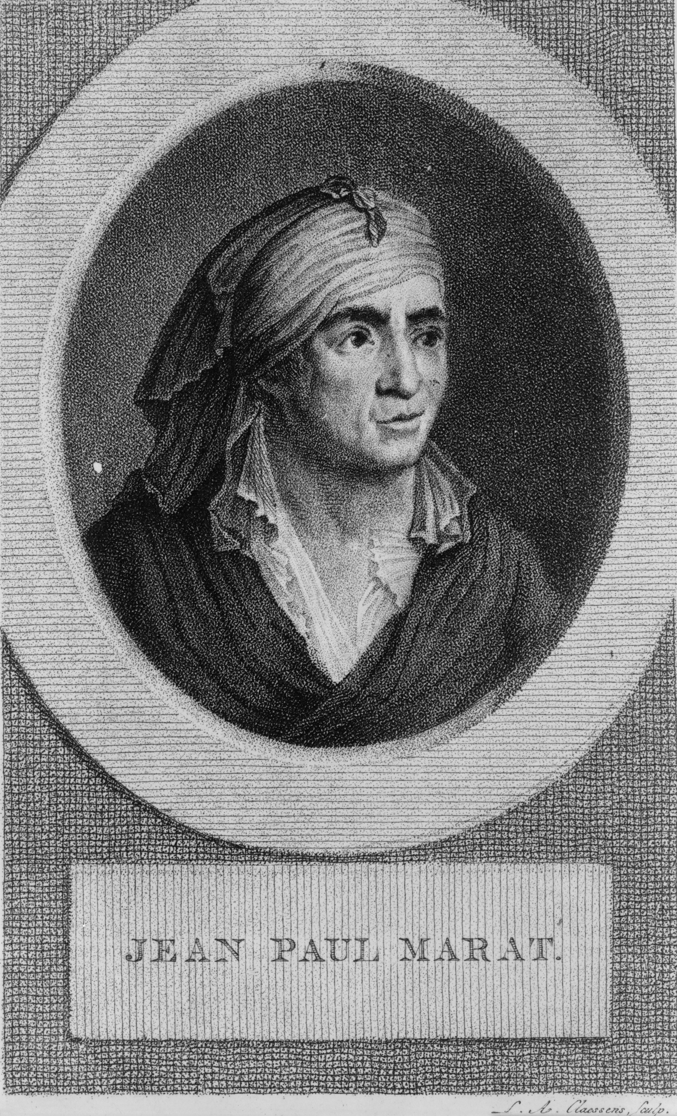 The Stipple-engraving shows Jean Paul Marat, head-and-shoulders portrait, facing right, in oval above nameplate. First published in a portraitedition with 25 parts in 6 volumes by Johannes Allart, Amsterdam, 1795-1801.